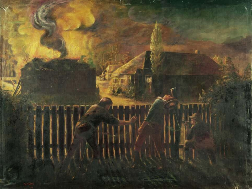 Bushrangers attacking Goimbla Station, painting : oil on canvas ; 137.5 x 181 cm